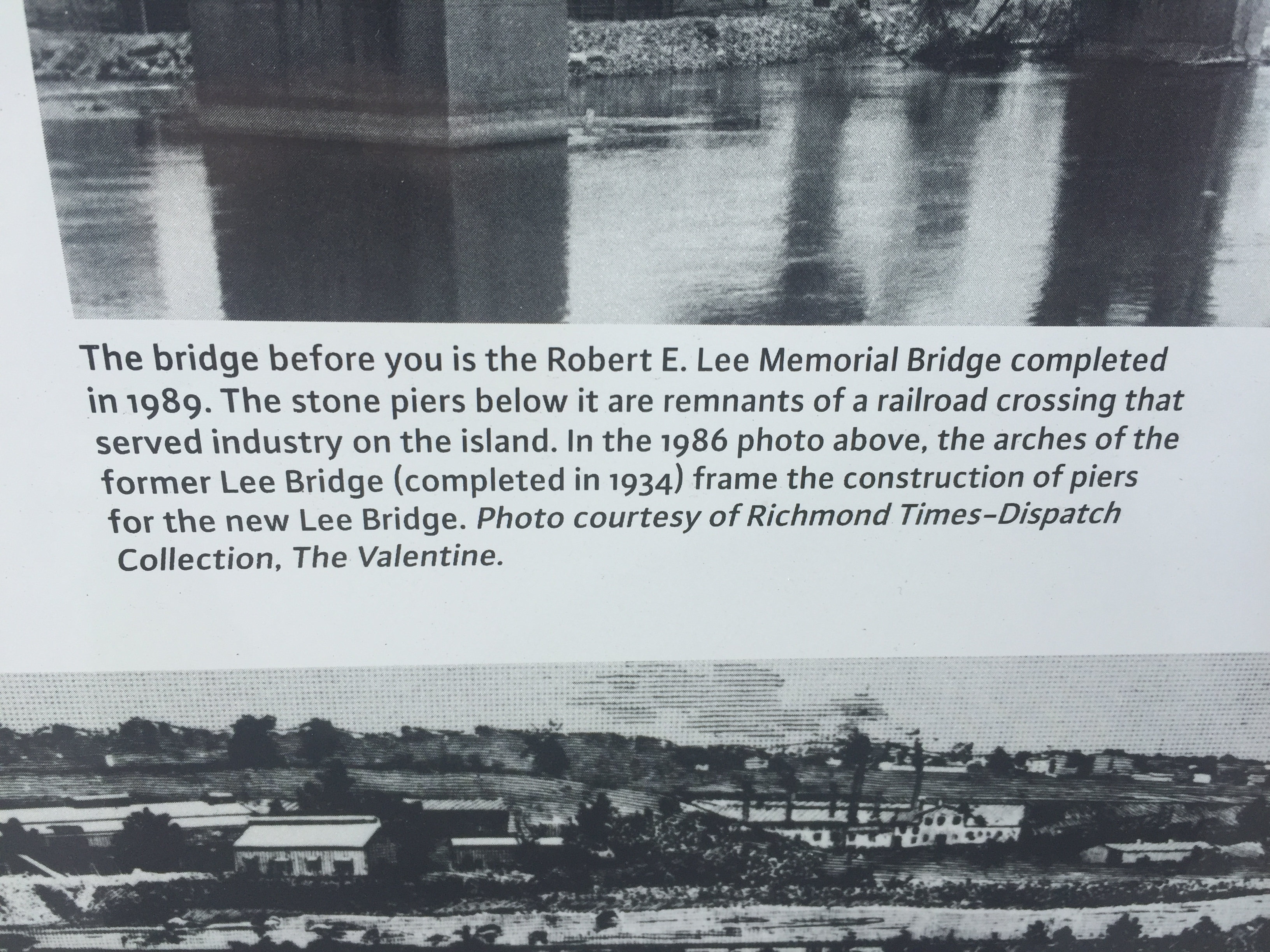 As seen on the historical marker near on the bridge while walking on foot